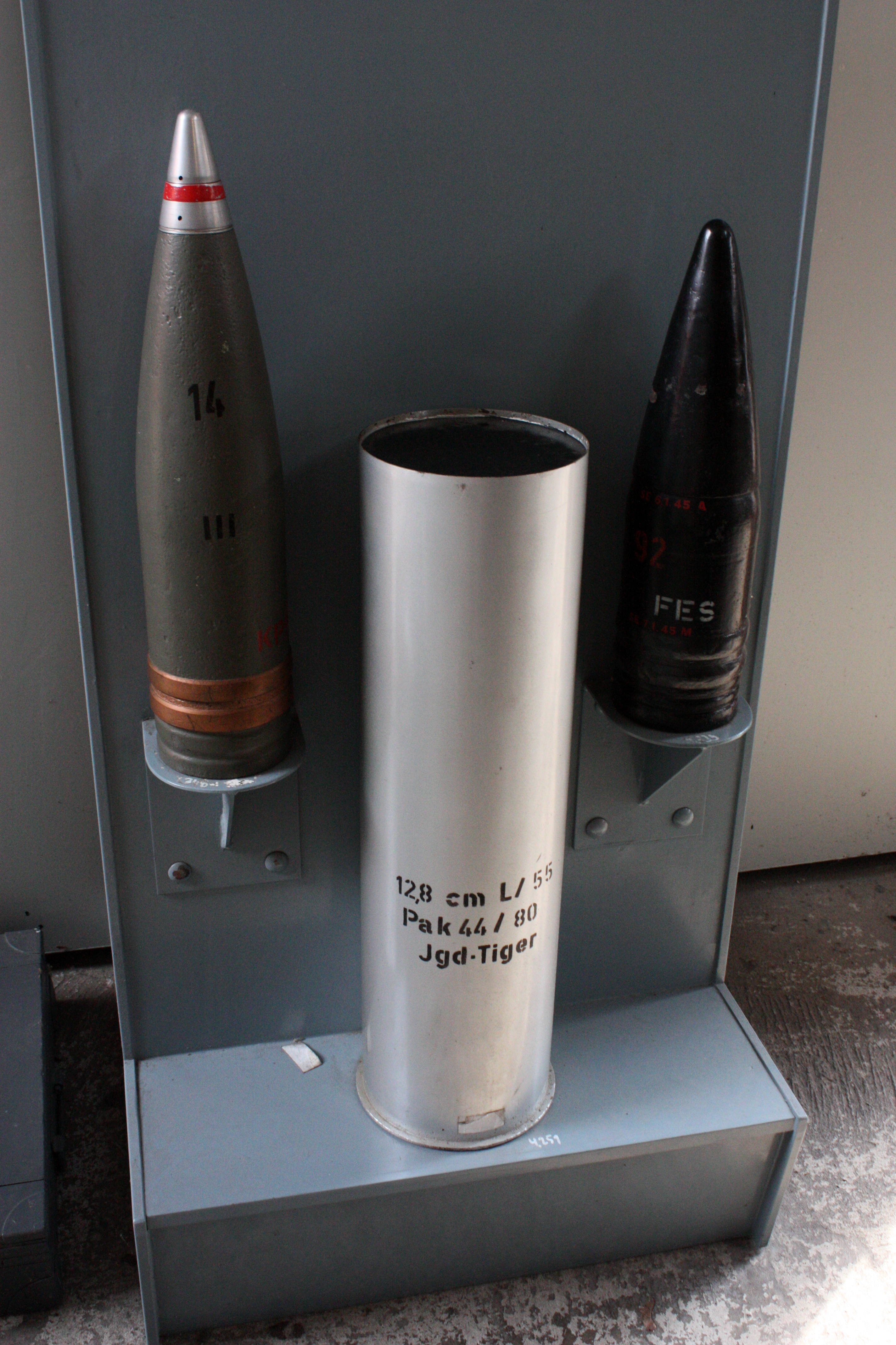 Artillery ammunition of the German Wehrmacht until 1945, here: two 128 mm projectiles with cartridge cases to the 12,8-cm-KwK 44 L/55 and 12,8-cm-PaK 44 L/55, German Tank Museum (Munster, Lower Saxony, Germany).